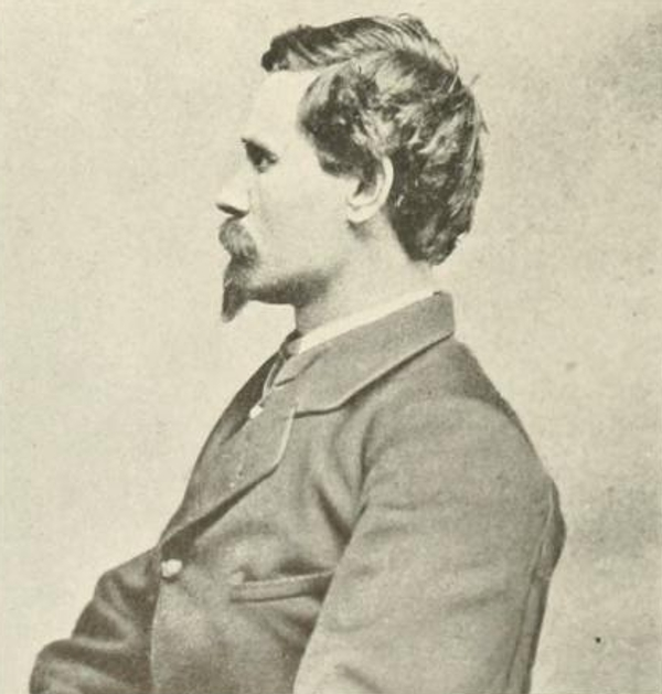 Union General Orlando Metcalfe Poe